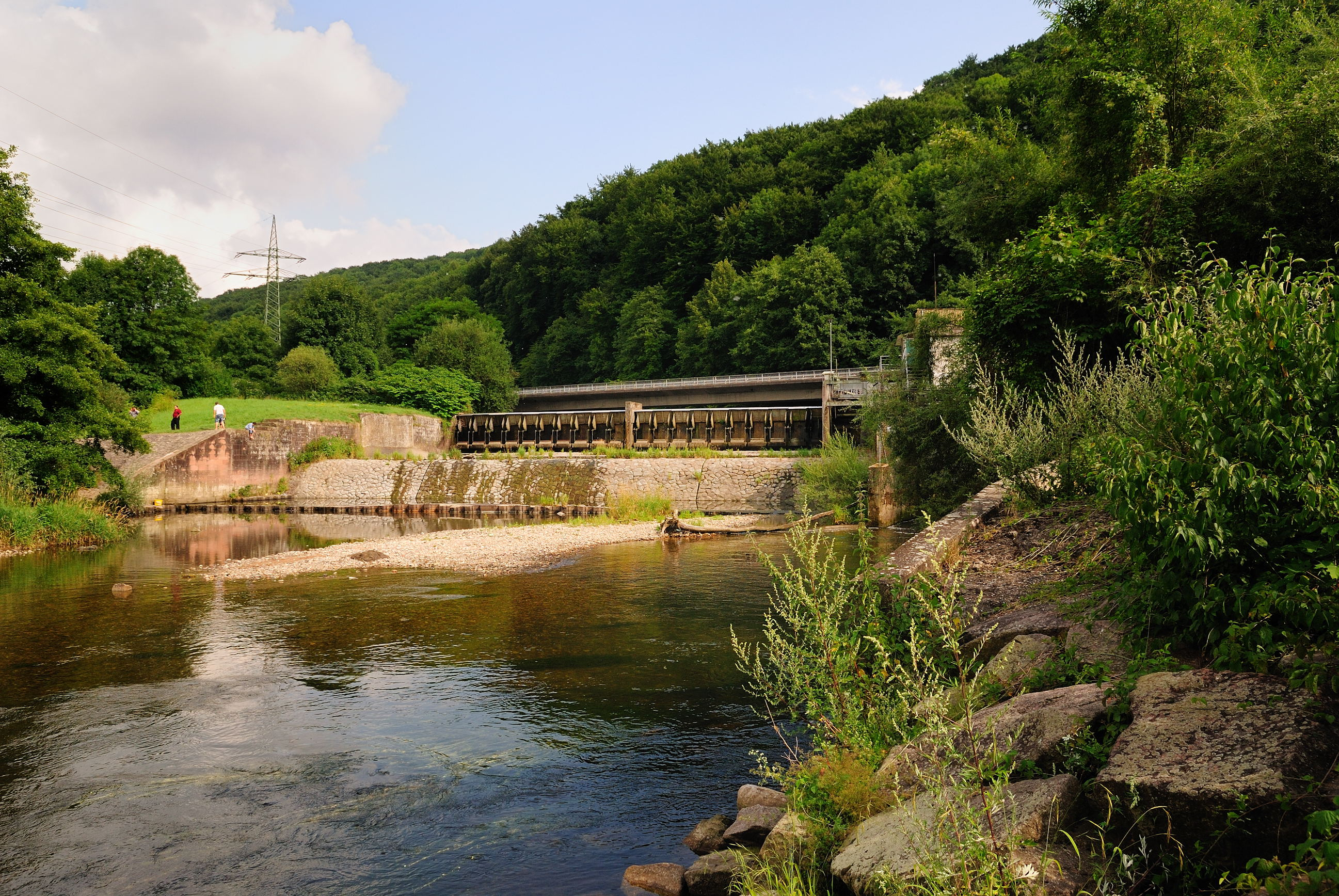 barrage at river Wiese near Lörrach-Brombach